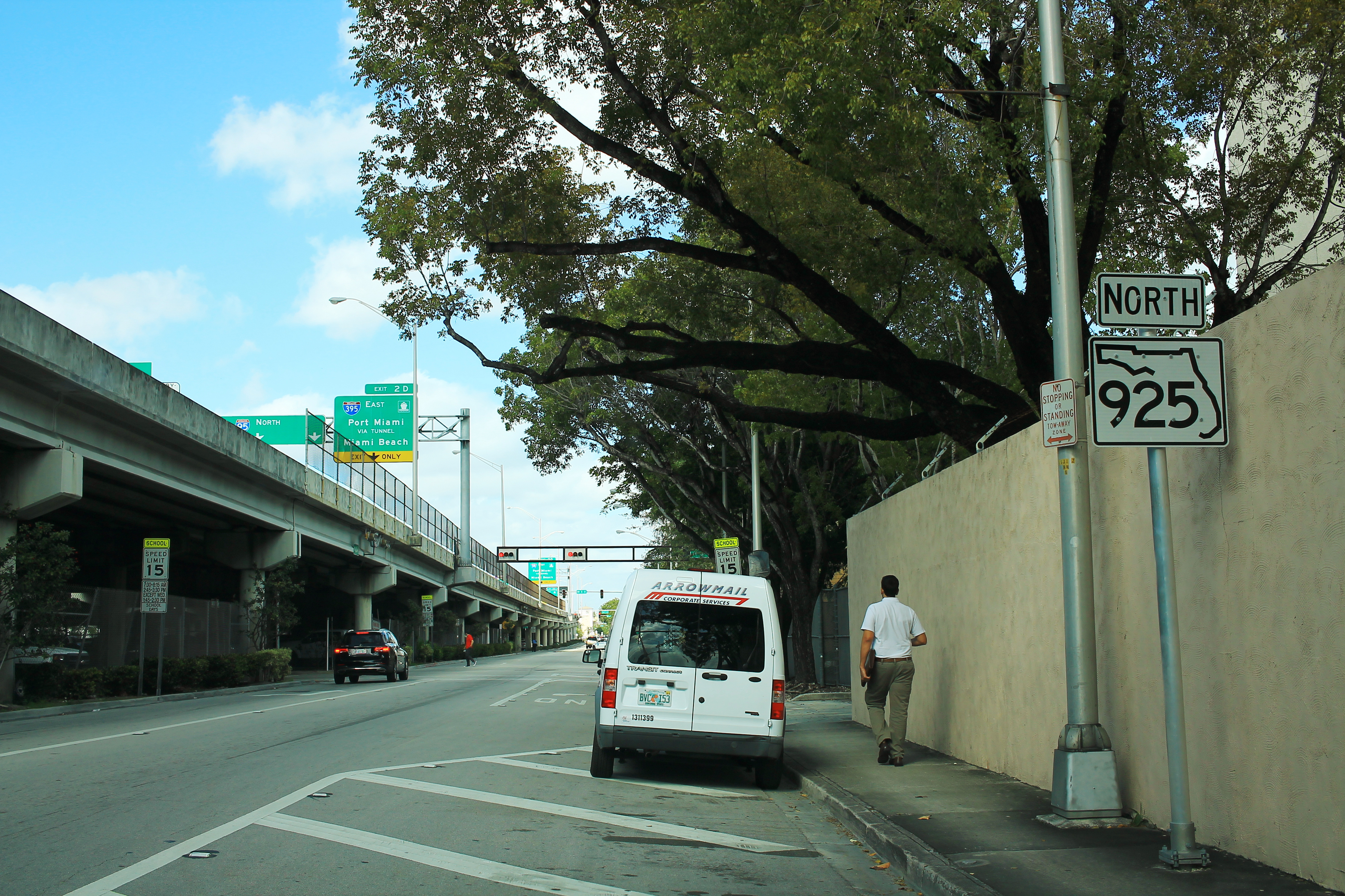 A sign for Florida State Road 925 on Northwest 3rd Avenue in Miami, Florida.